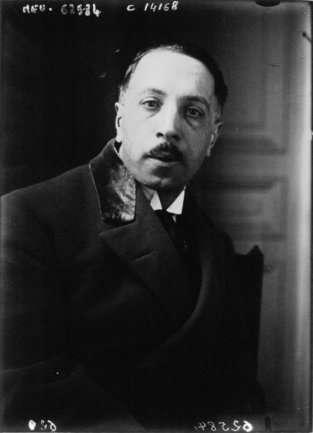 António Patrício, Portuguese consul in Bremen, in 1917.